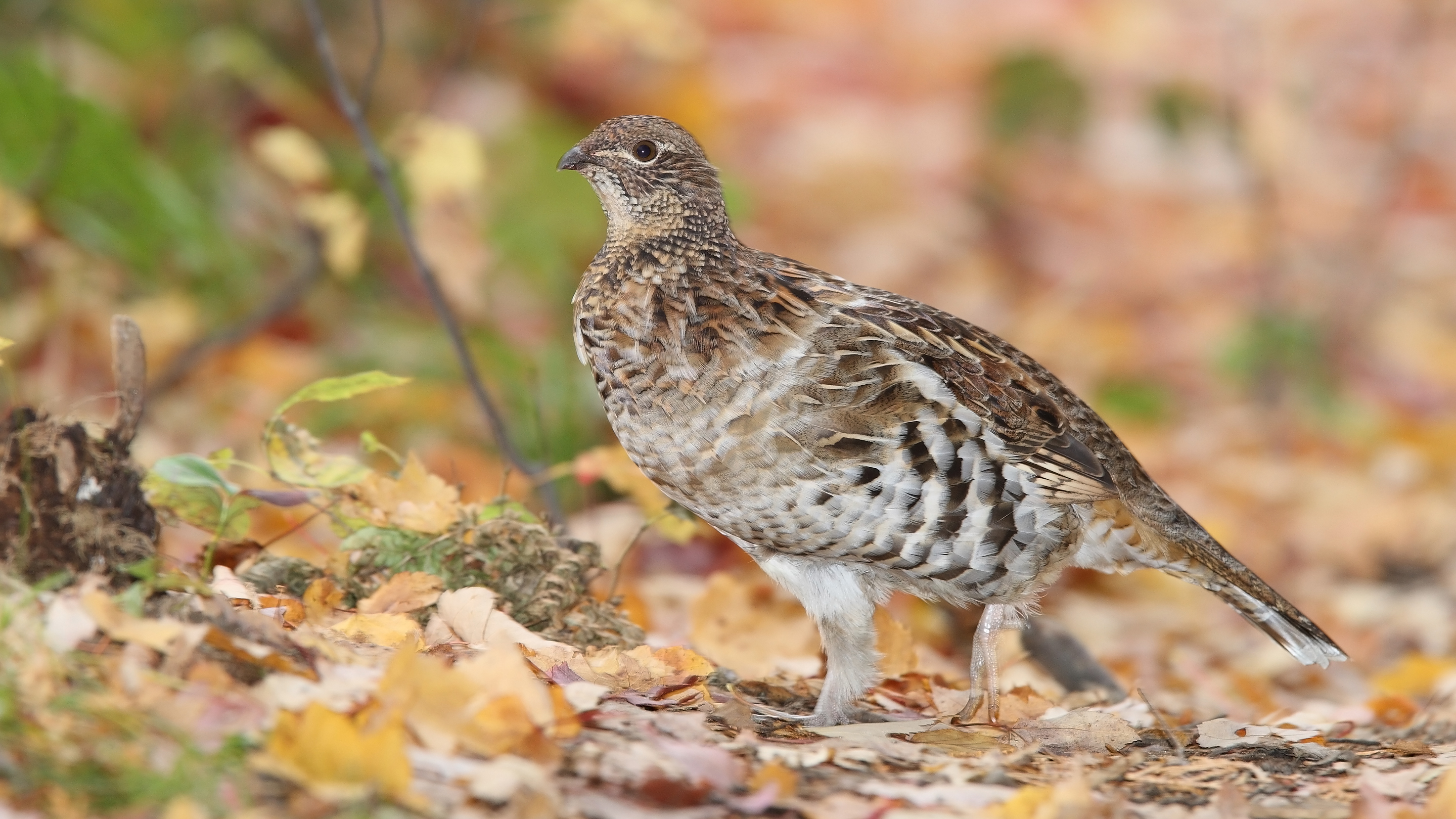 Ruffed Grouse -- Algonquin Provincial Park, Ontario, Canada -- 2008 October